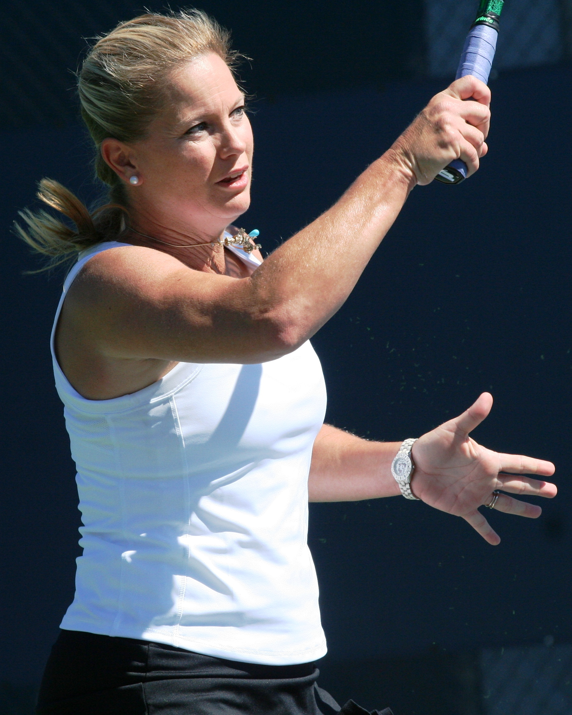 U.S. Open Champions Team Tennis Saturday, Sept. 11, 2010